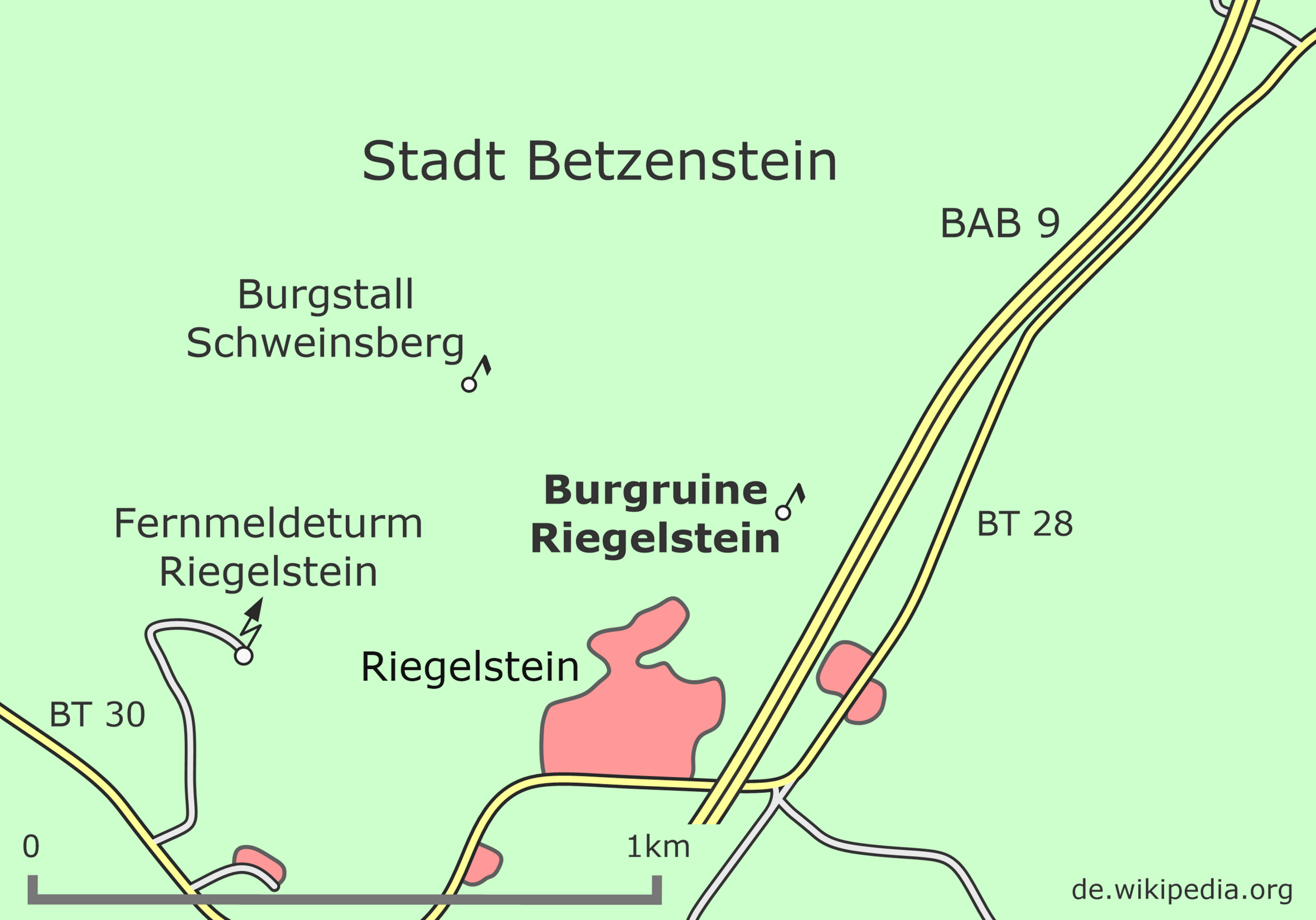 Surrounding map of the castle ruin of Riegelstein, located five kilometers south of the town of Betzenstein